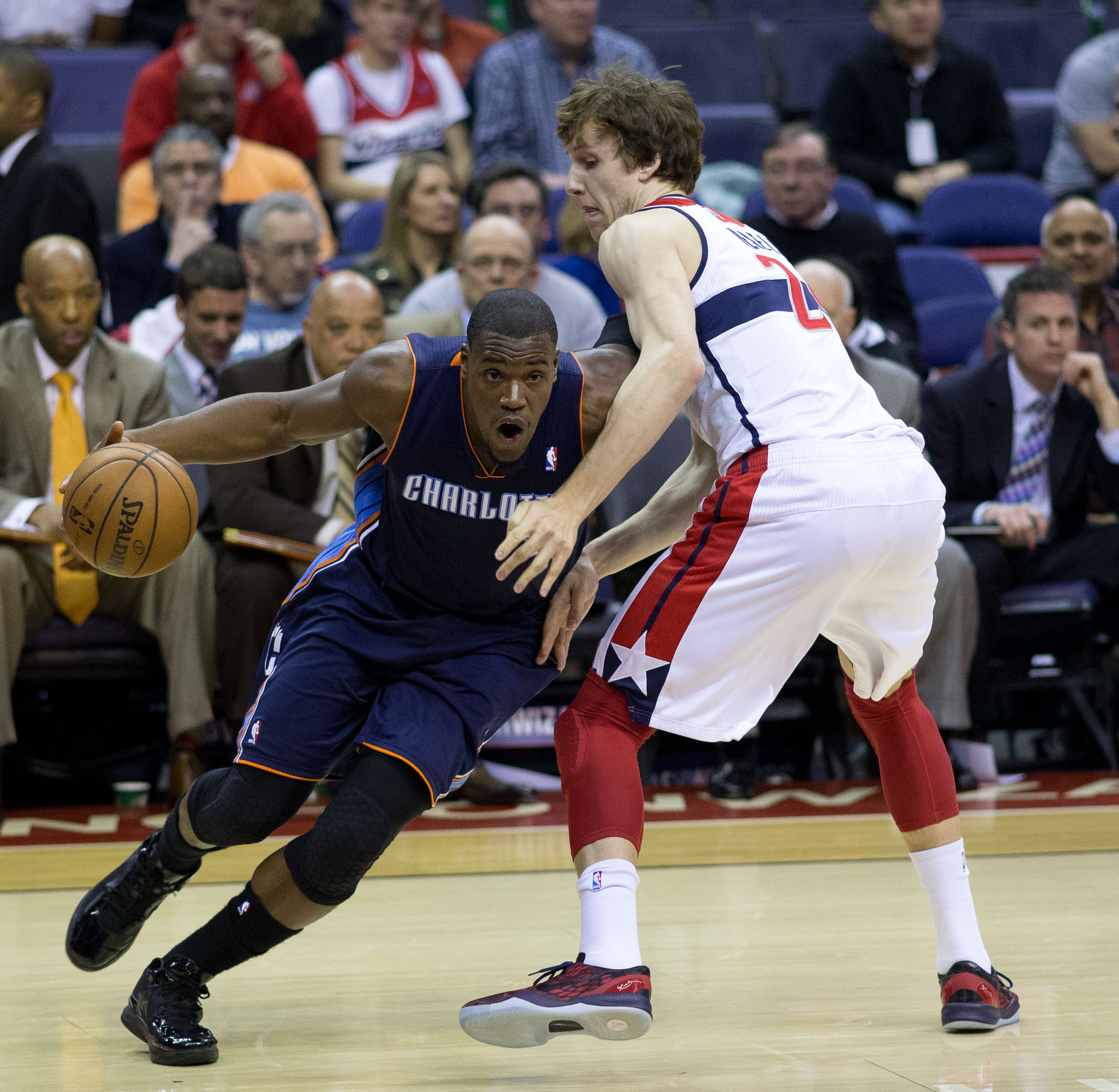 Charlotte Bobcats at Washington Wizards March 9, 2013